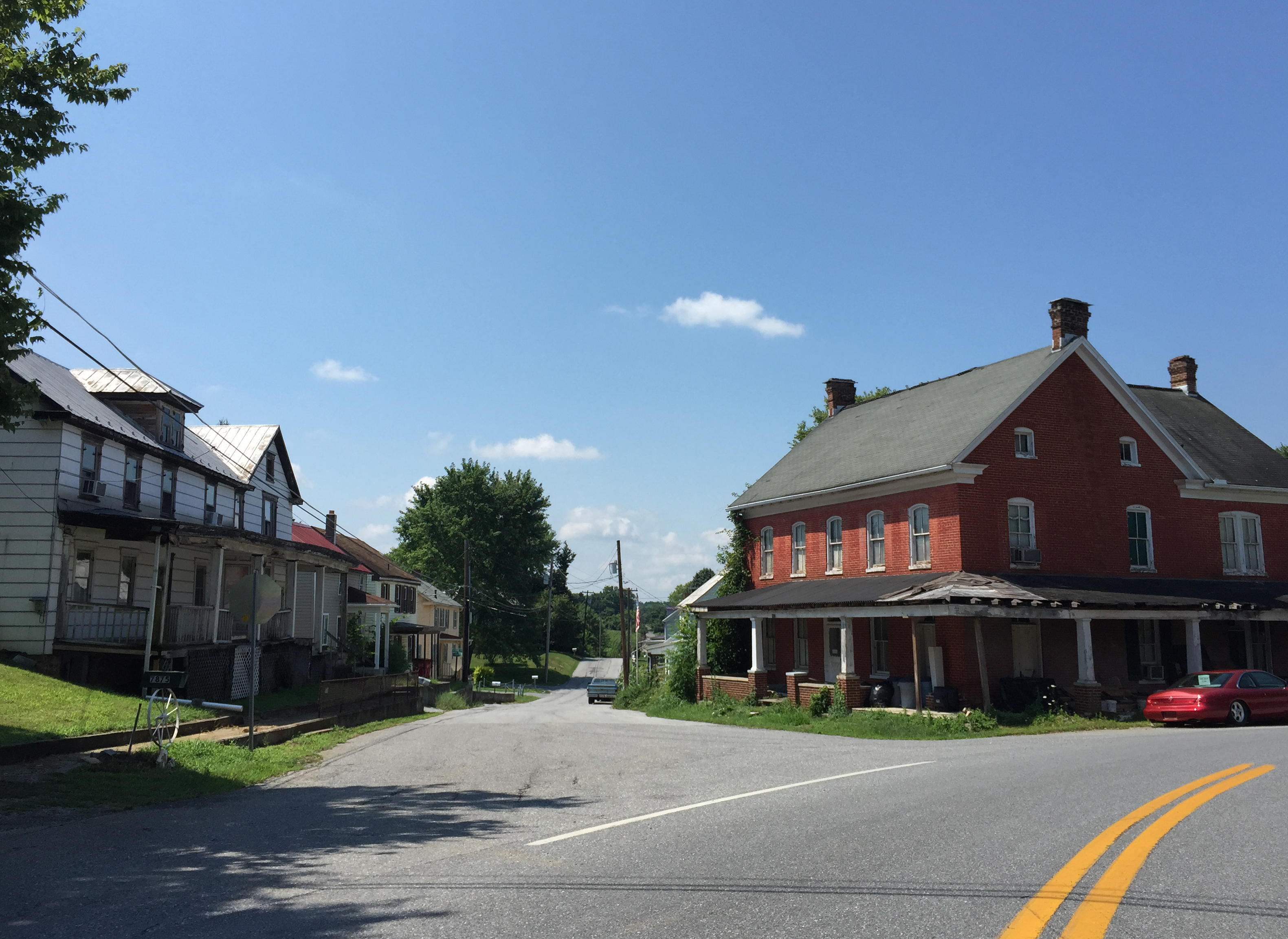 View south along Fairplay Road at Maryland State Route 63 (Spielman Road) in Fairplay, Washington County, Maryland